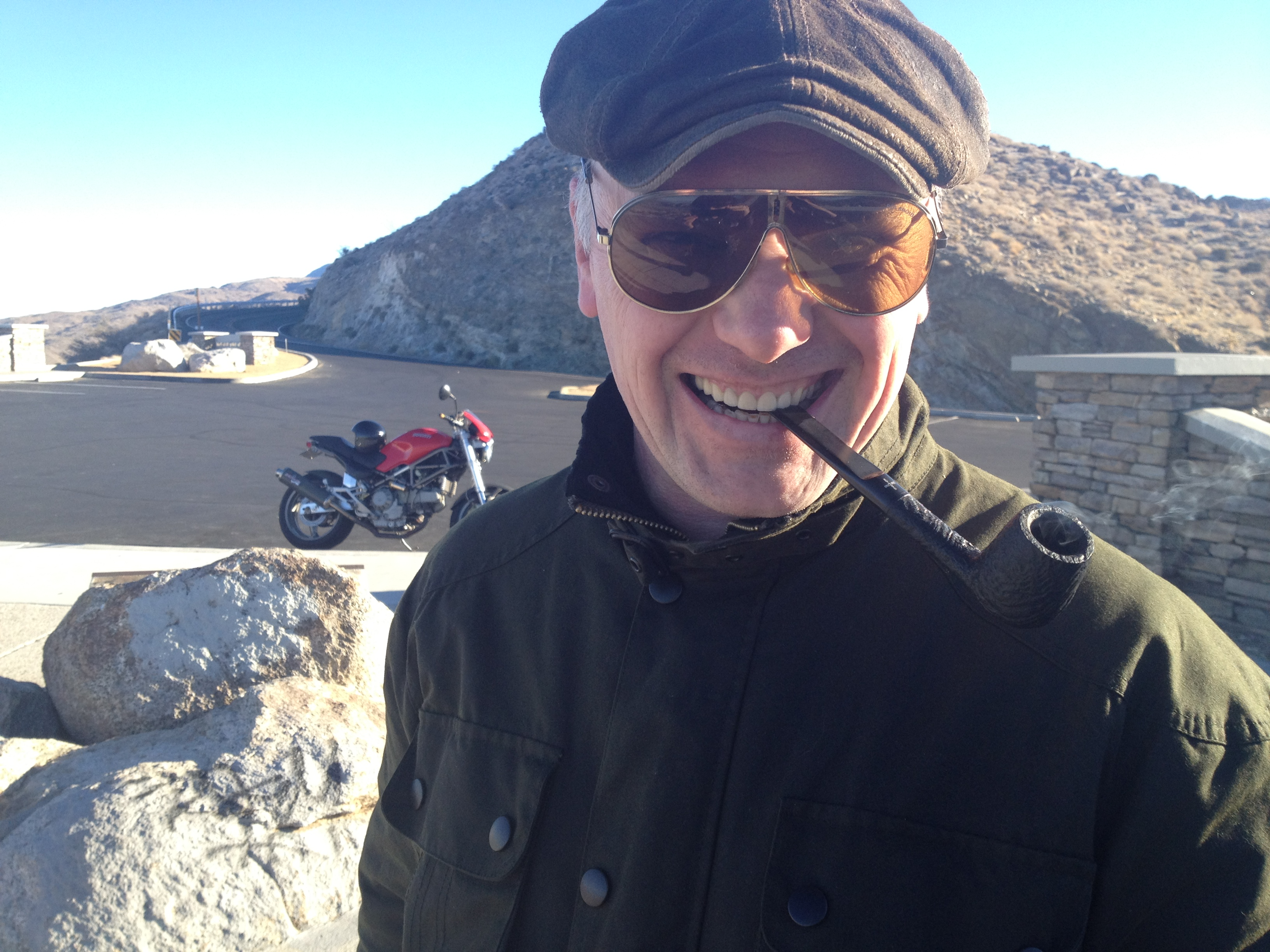 Steve Berry with Ducati motorcycle Highway 74, California. Jan 2013